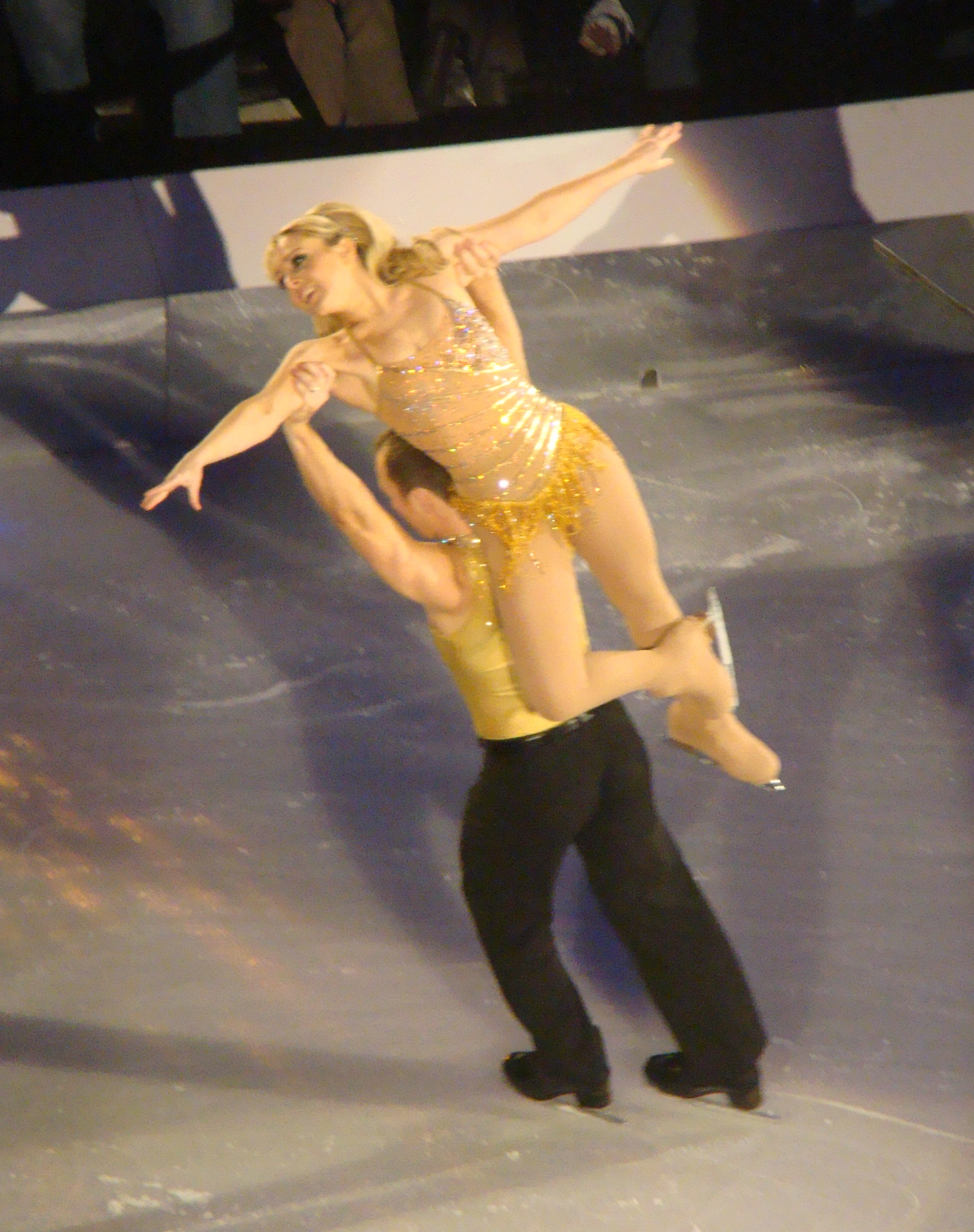 Clare Buckfield performing with Lukasz Rozycki on the Dancing on Ice tour in 2010.